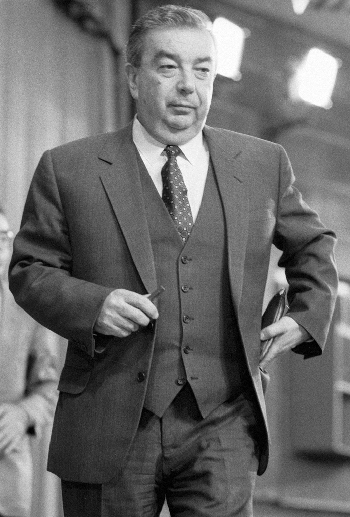 “Director of the USSR Central Intelligence Service Yevgeny Primakov”. Director of the USSR Central Intelligence Service Yevgeny Primakov.